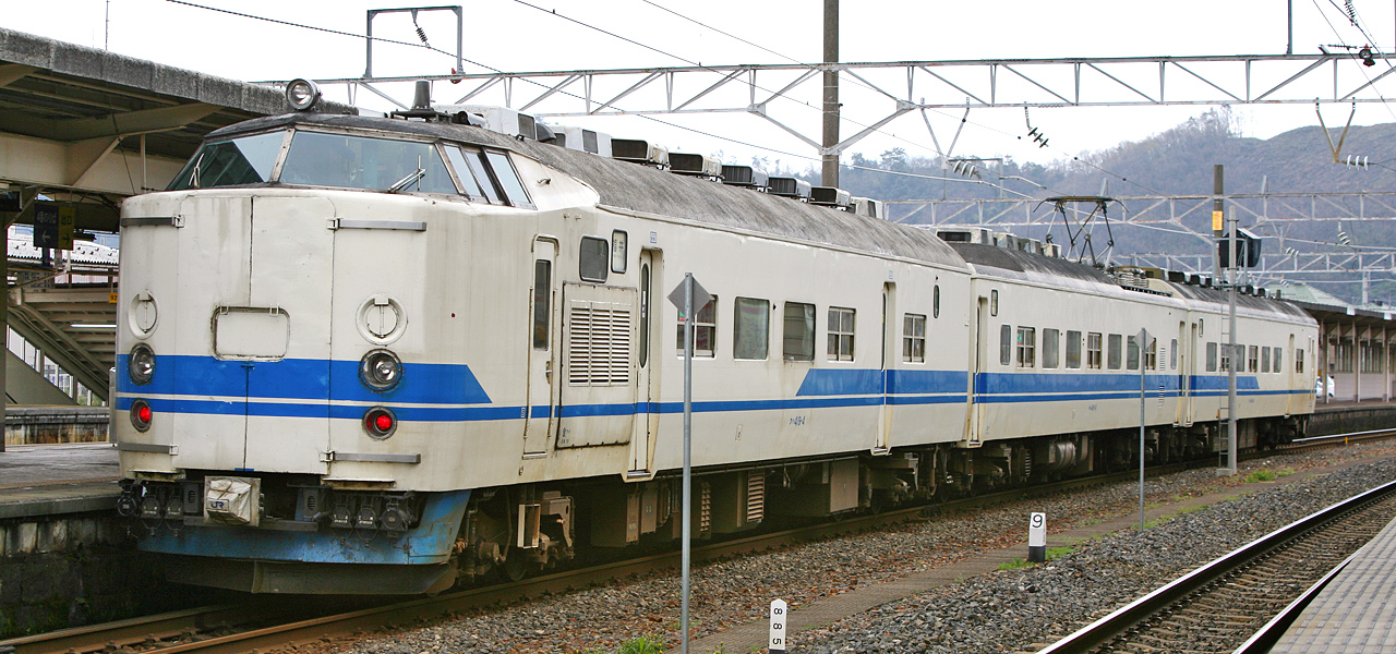 JR West's JNR 419 series EMU at Tsuruga Station ( D14F ).